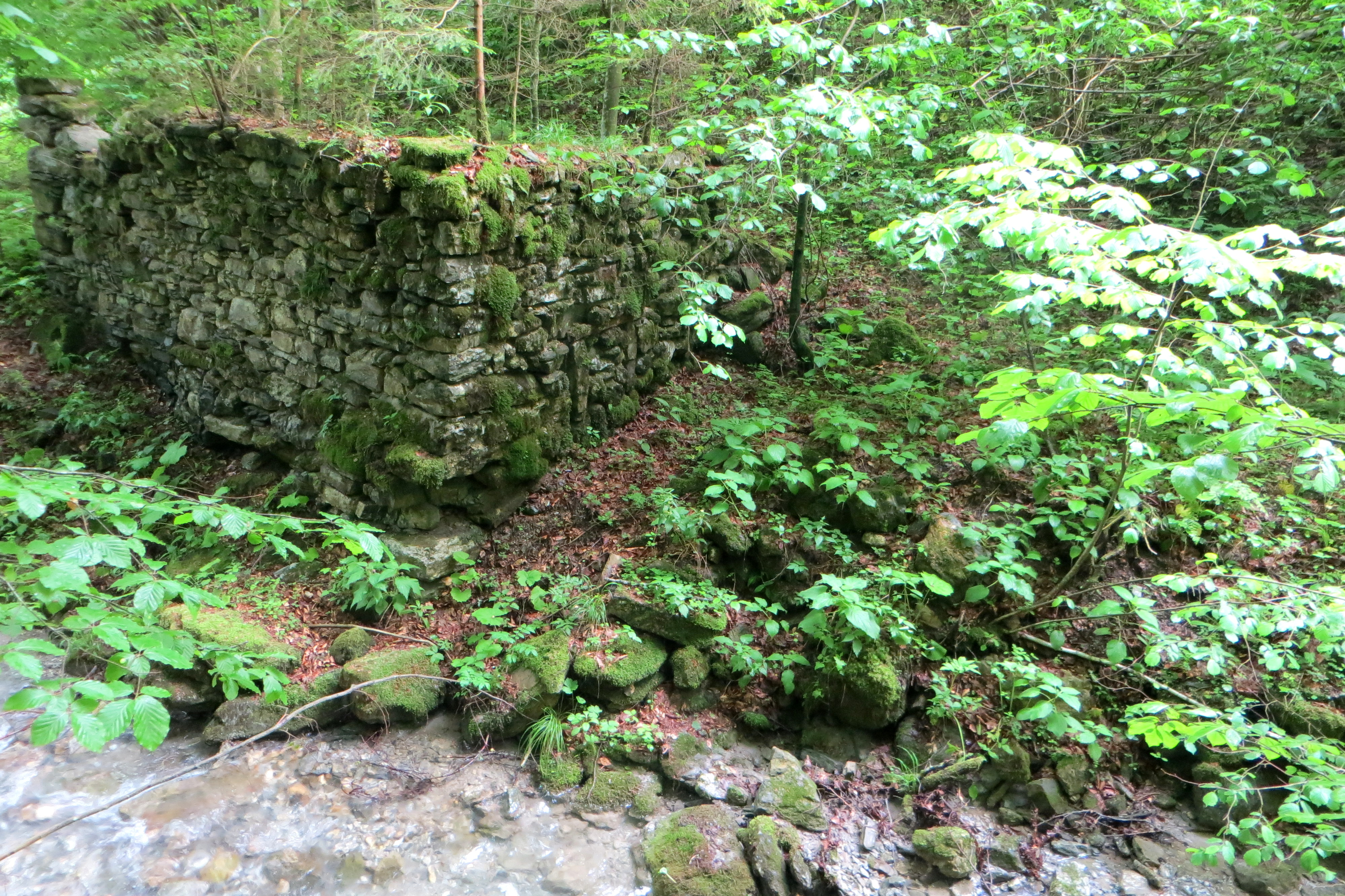 Ruins of a mill along Ravne Creek (Sln. Ravenska grapa) in Ravne, Municipality of Železniki, Slovenia